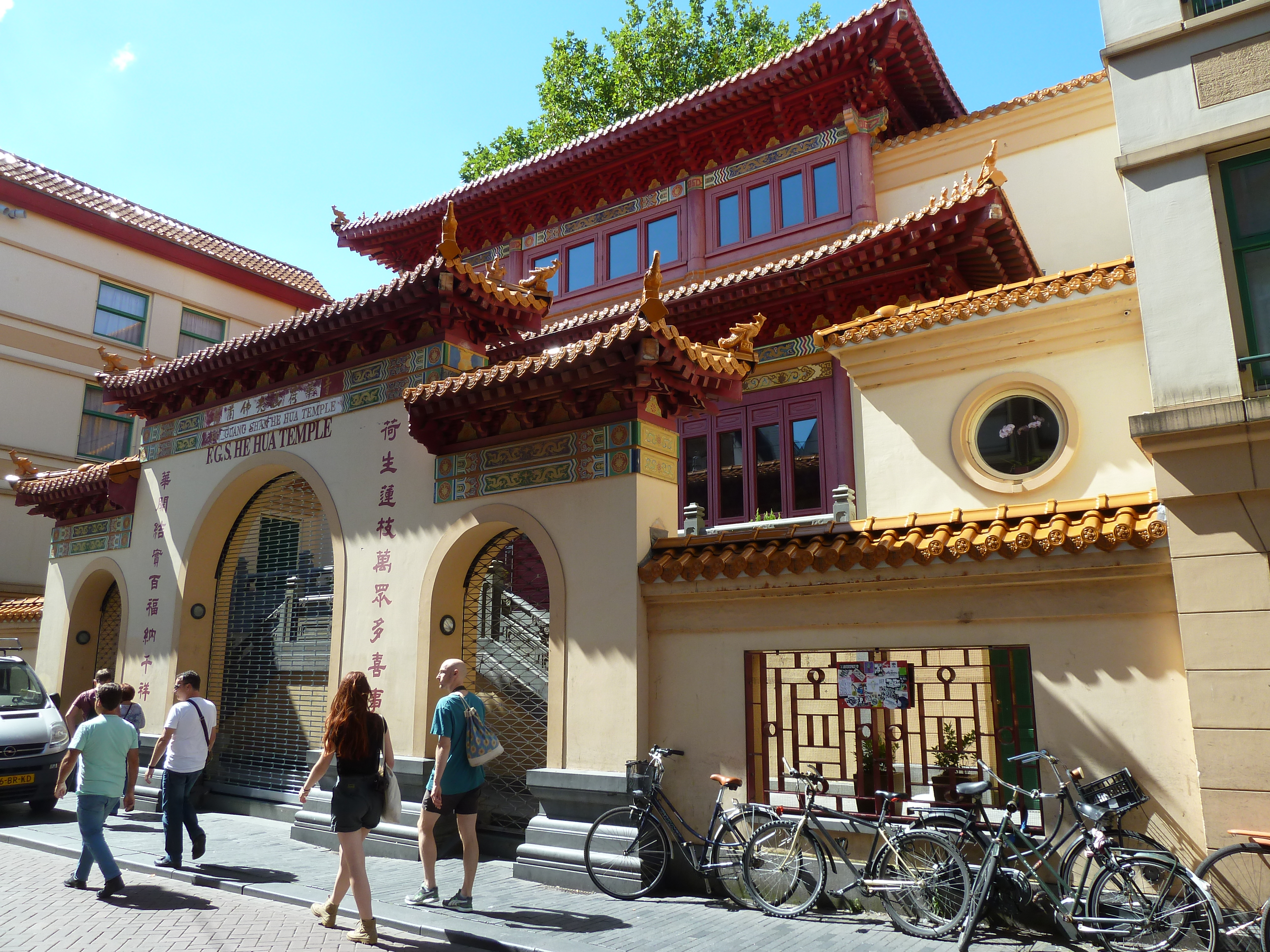 He Hua Temple in Amsterdam, Netherlands.